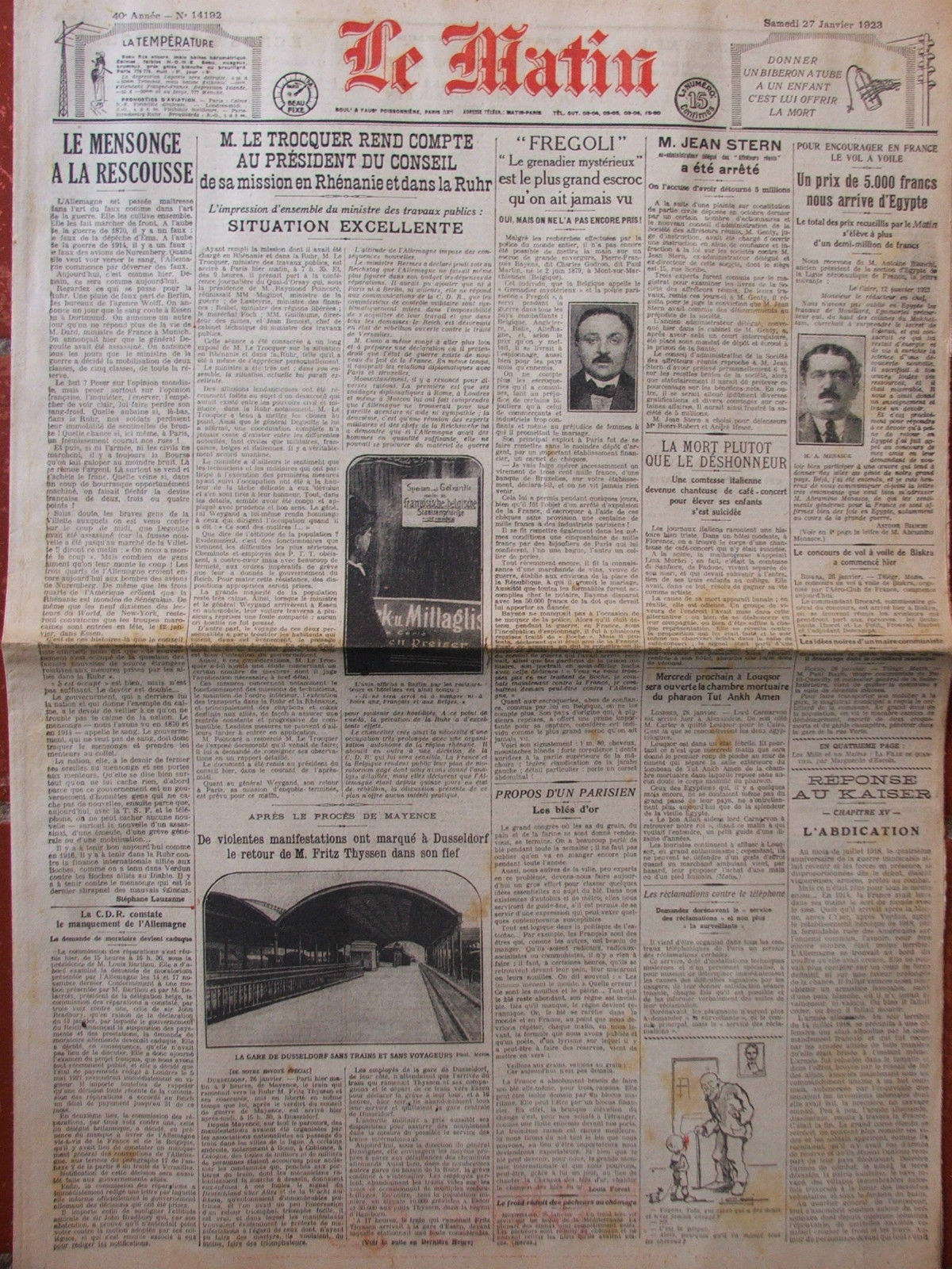 Journal de 1923 première page